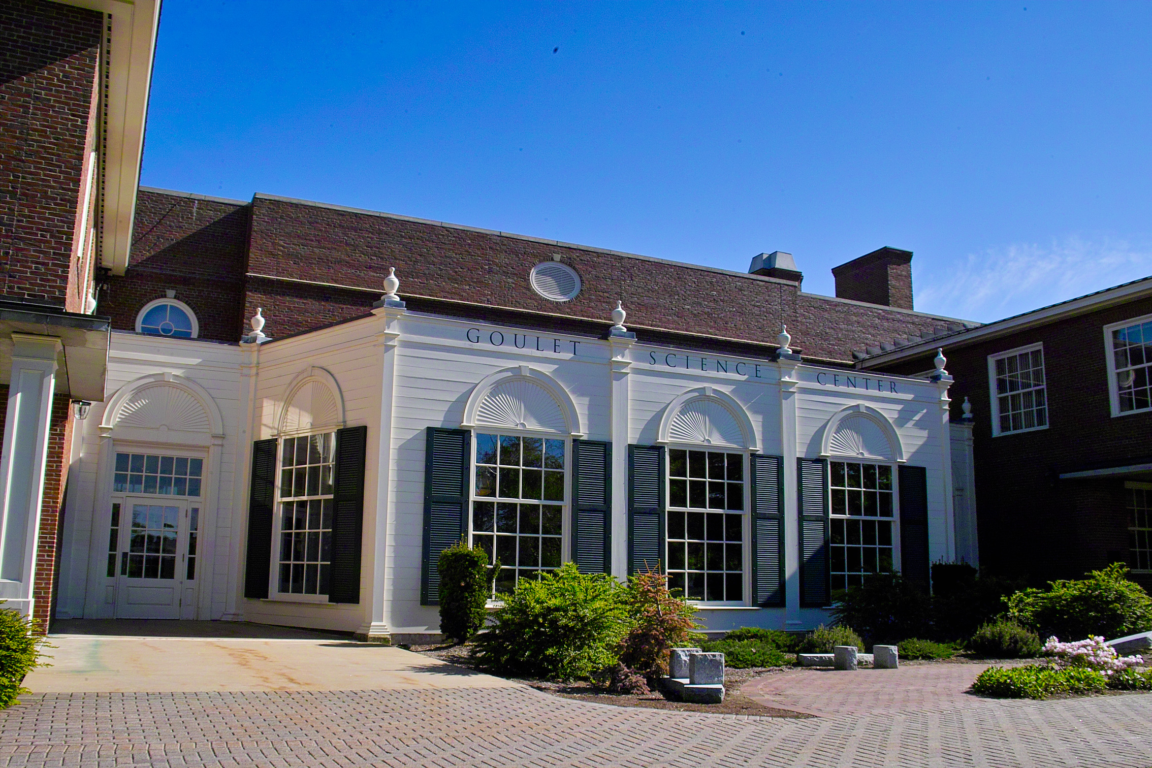 classical architecture seen on campus